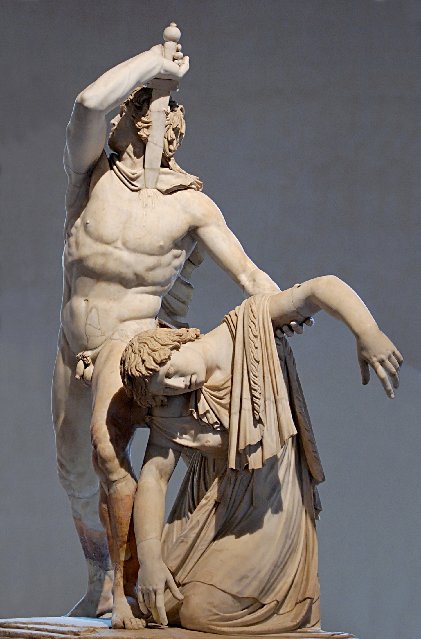 So-called Ludovisi Gaul and his wife. Marble, Roman copy after an Hellenistic original from a monument built by Attalus I of Pergamon after his victory over Gauls, ca. 220 BC.